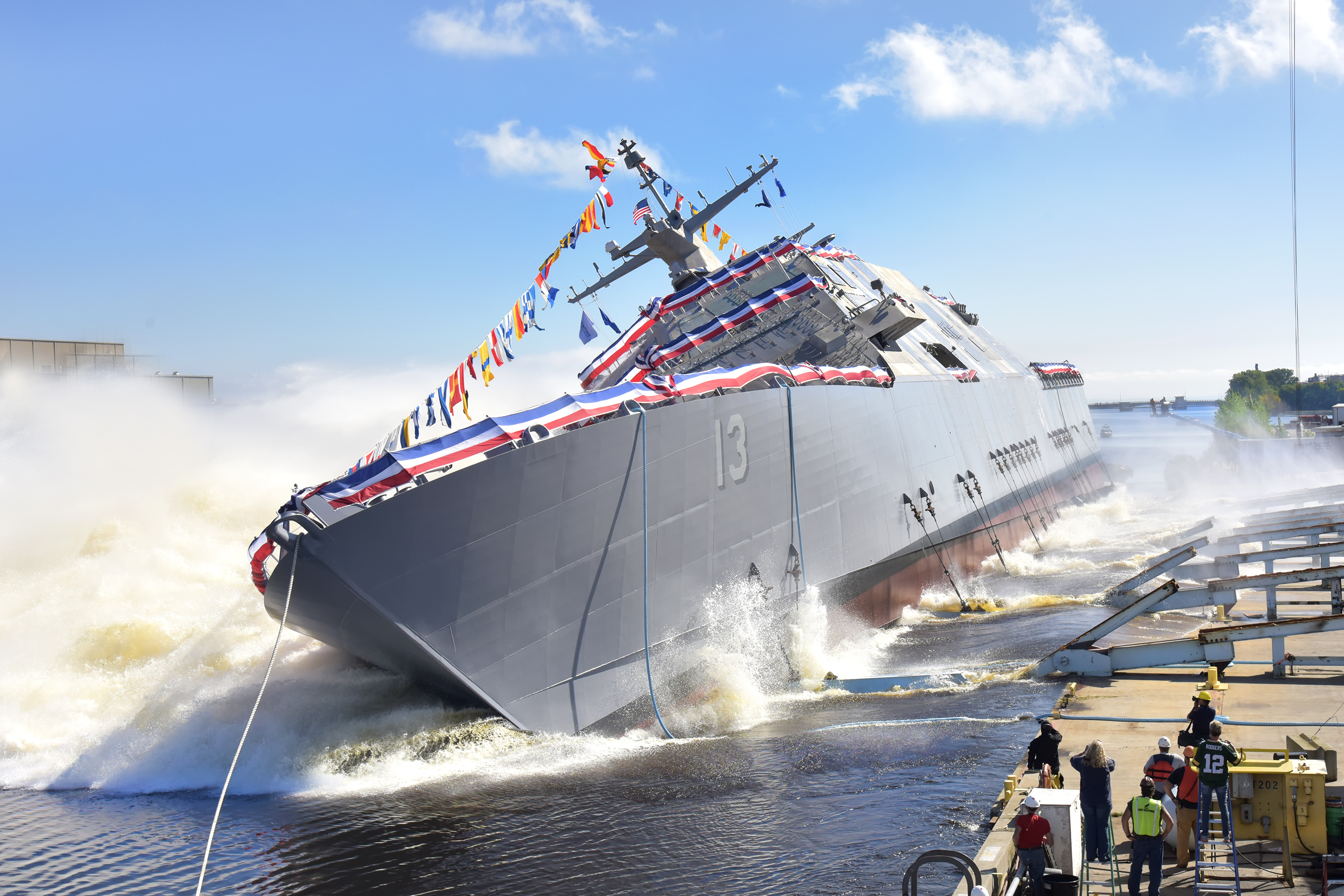 160917-N-N0101-101 MARINETTE, Wisc. (Sept. 17, 2016) The 13th littoral combat ship, the future USS Wichita (LCS 13) launches sideways into the Menominee River after being christening by ship sponsor Kate Lehrer. Once commissioned, LCS-13 will be the third naval vessel to honor Kansas's largest city. (U.S. Navy photo courtesy of Lockheed Martin /Released)